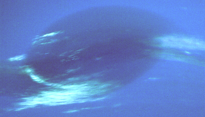 This photograph shows the last face on view of the Great Dark Spot that Voyager will make with the narrow angle camera. The image was shuttered 45 hours before closest approach at a distance of 2.8 million kilometers (1.7 million miles). The smallest structures that can be seen are of an order of 50 kilometers (31 miles). The image shows feathery white clouds that overlie the boundary of the dark and light blue regions. The pinwheel (spiral) structure of both the dark boundary and the white cirrus suggest a storm system rotating counterclockwise. Periodic small scale patterns in the white cloud, possibly waves, are short lived and do not persist from one Neptunian rotation to the next. This color composite was made from the clear and green filters of the narrow-angle camera. The Voyager Mission is conducted by JPL for NASA's Office of Space Science and Applications.